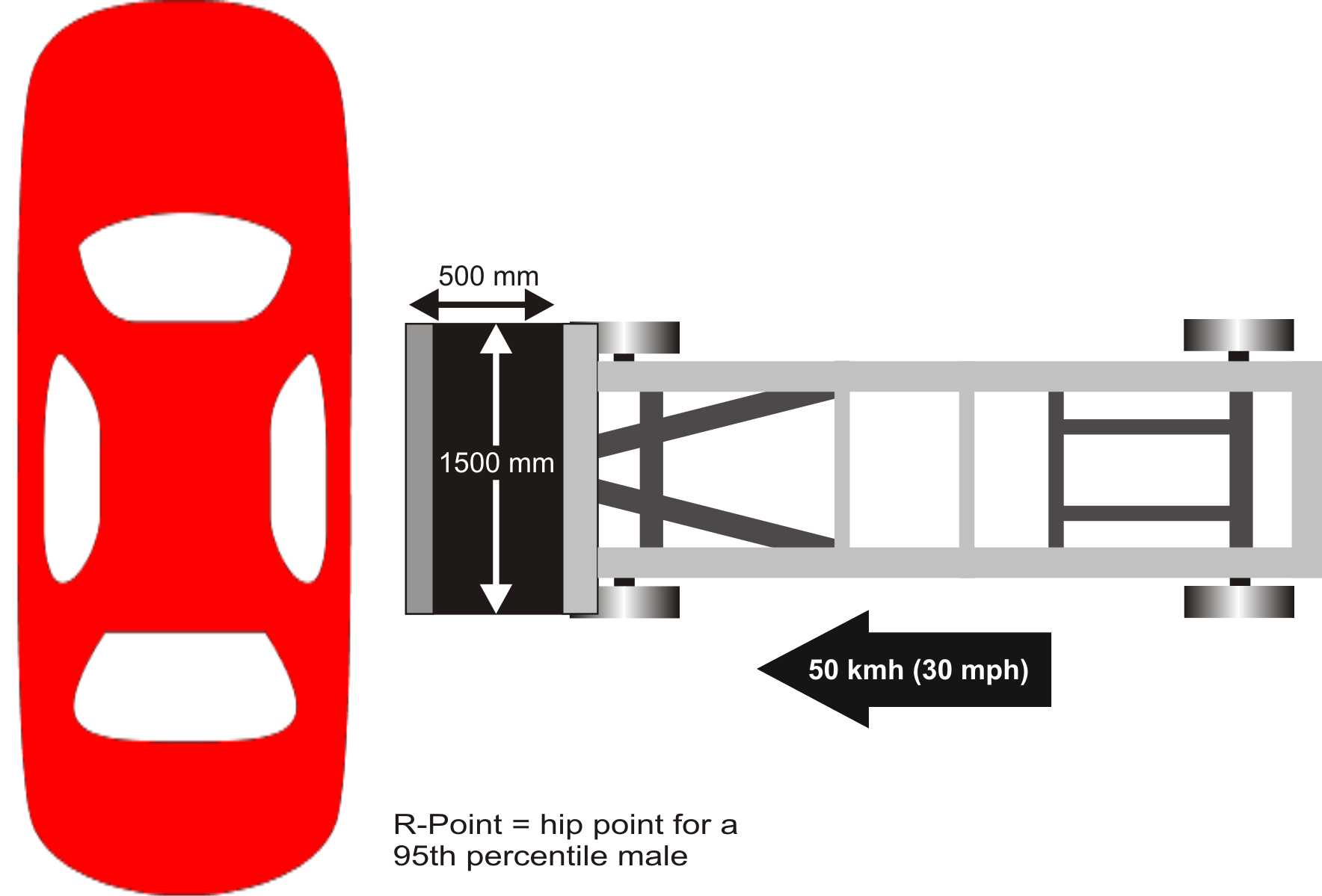 Euro NCAP side impact test